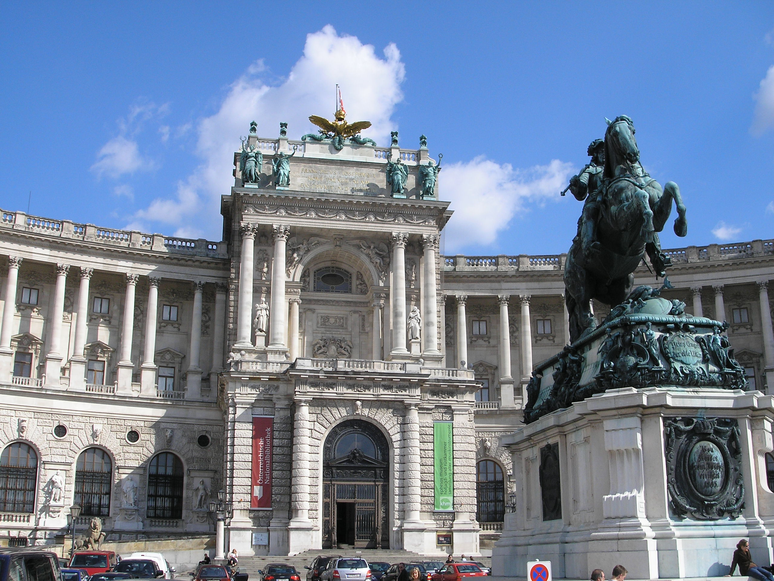 Image of the Neue Burg of the Hofburg imperial palace in Vienna.